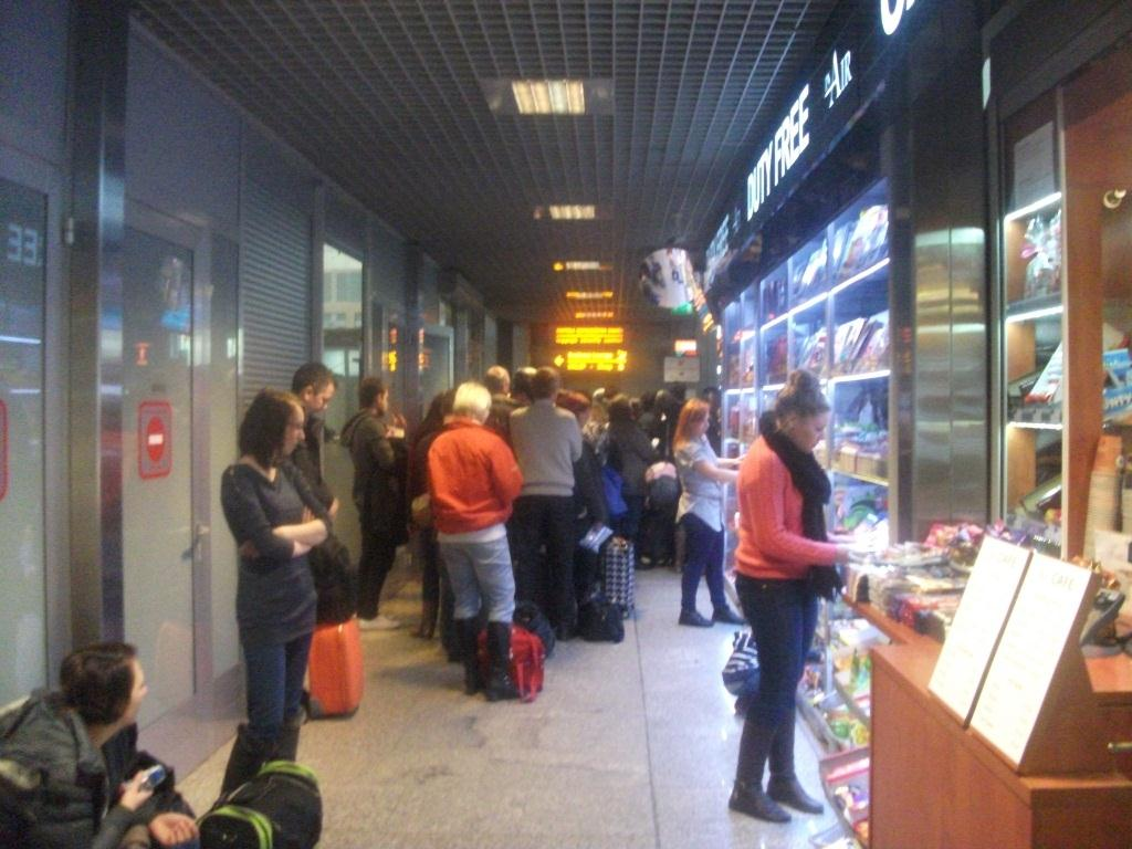 Non-schengen gates